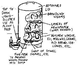 picture by Graham Burnett. Originally from Permaculture, a Beginners Guide Spiralseed publishing